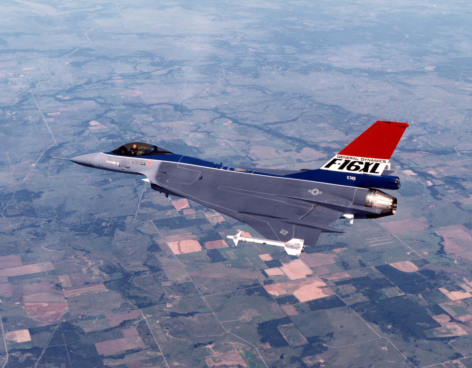 General Dynamics F-16XL (SN 75-0749) in flight